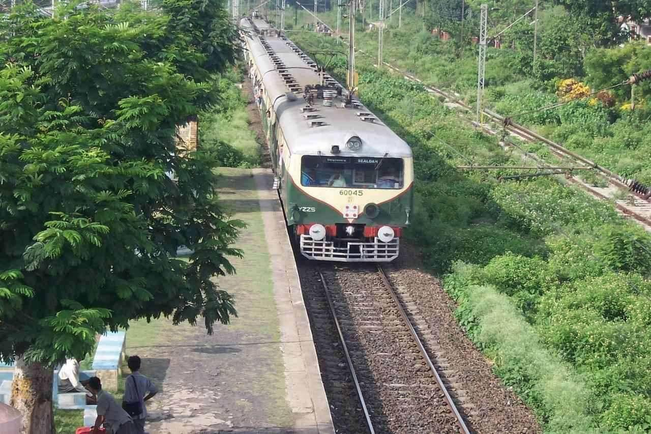 A Sealdah Bound Train from Gede at the Kalyani station . This train is new EMU train From Jessop Co.